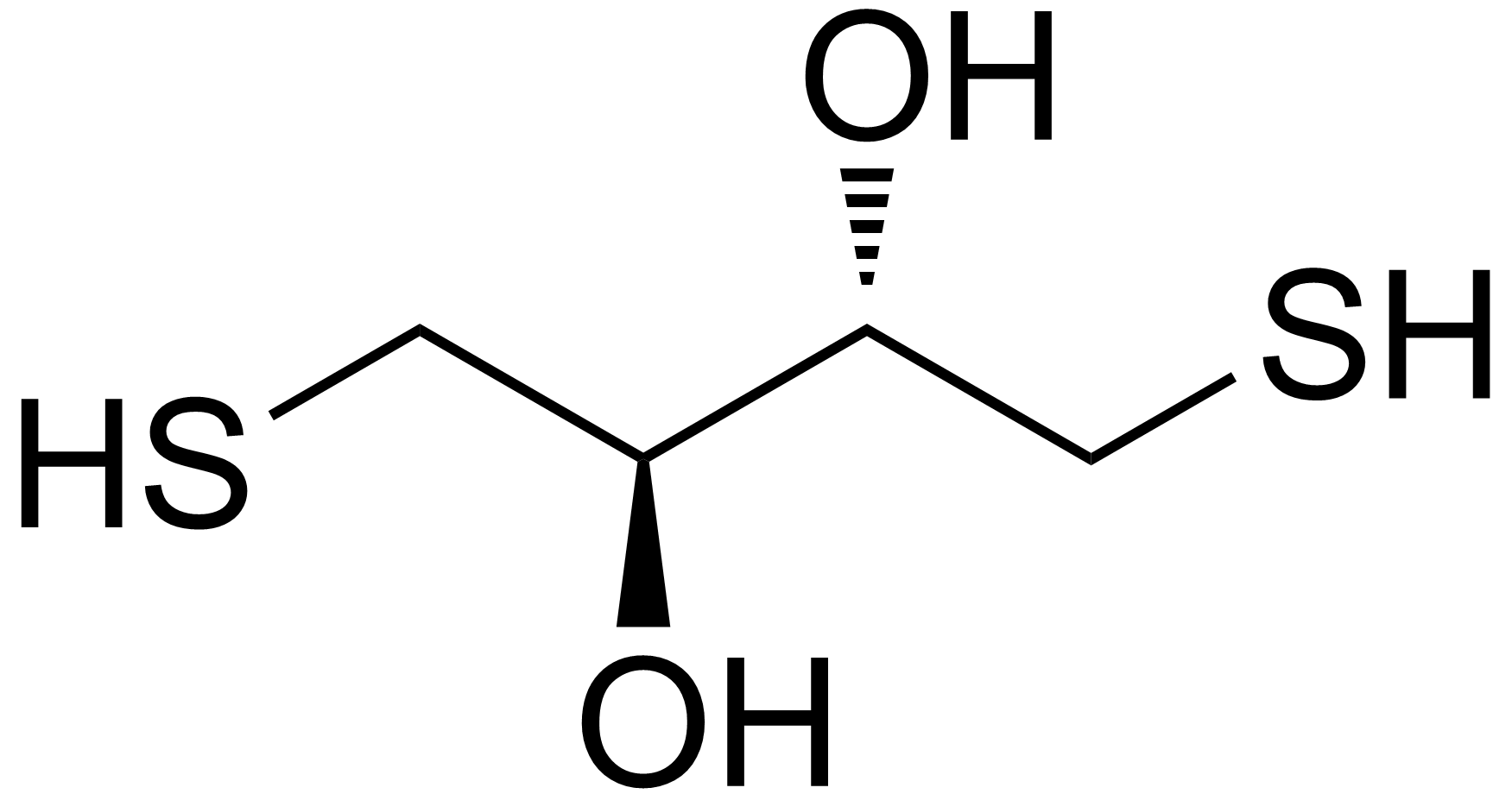 chemical structure of dithioerythritol